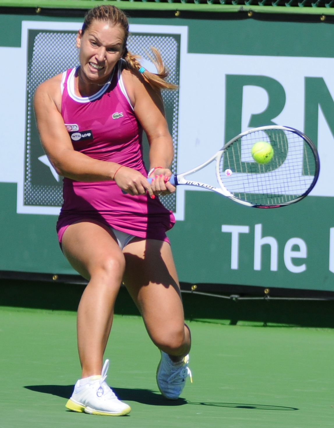 Dominika Cibulková at the 2013 BNP Paribas Open (Indian Wells, US)